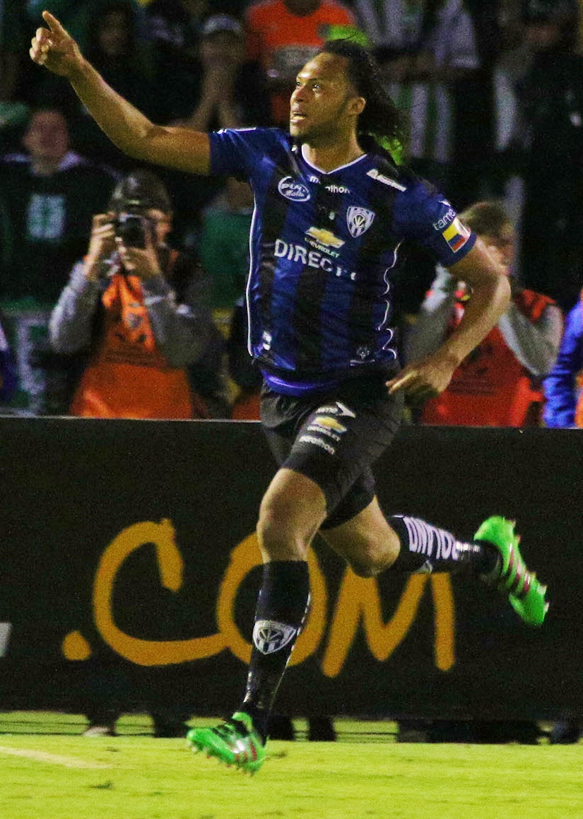 Arturo Mina